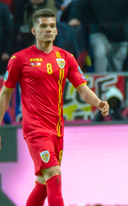 UEFA EURO qualifiers Sweden vs Romaina 20190323